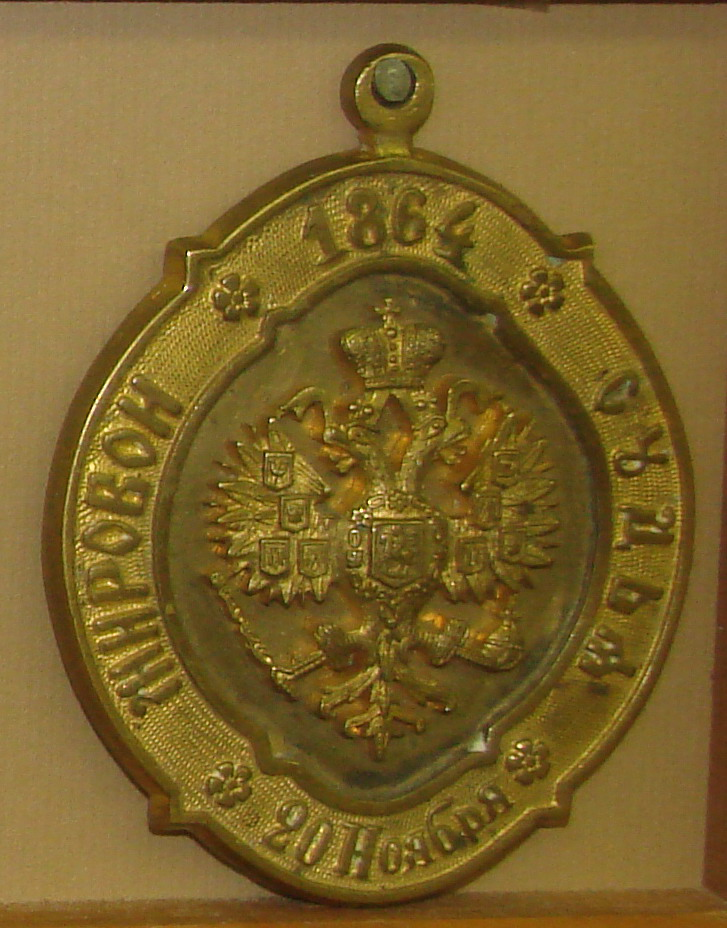 Sign Magistrate. 1864 year.